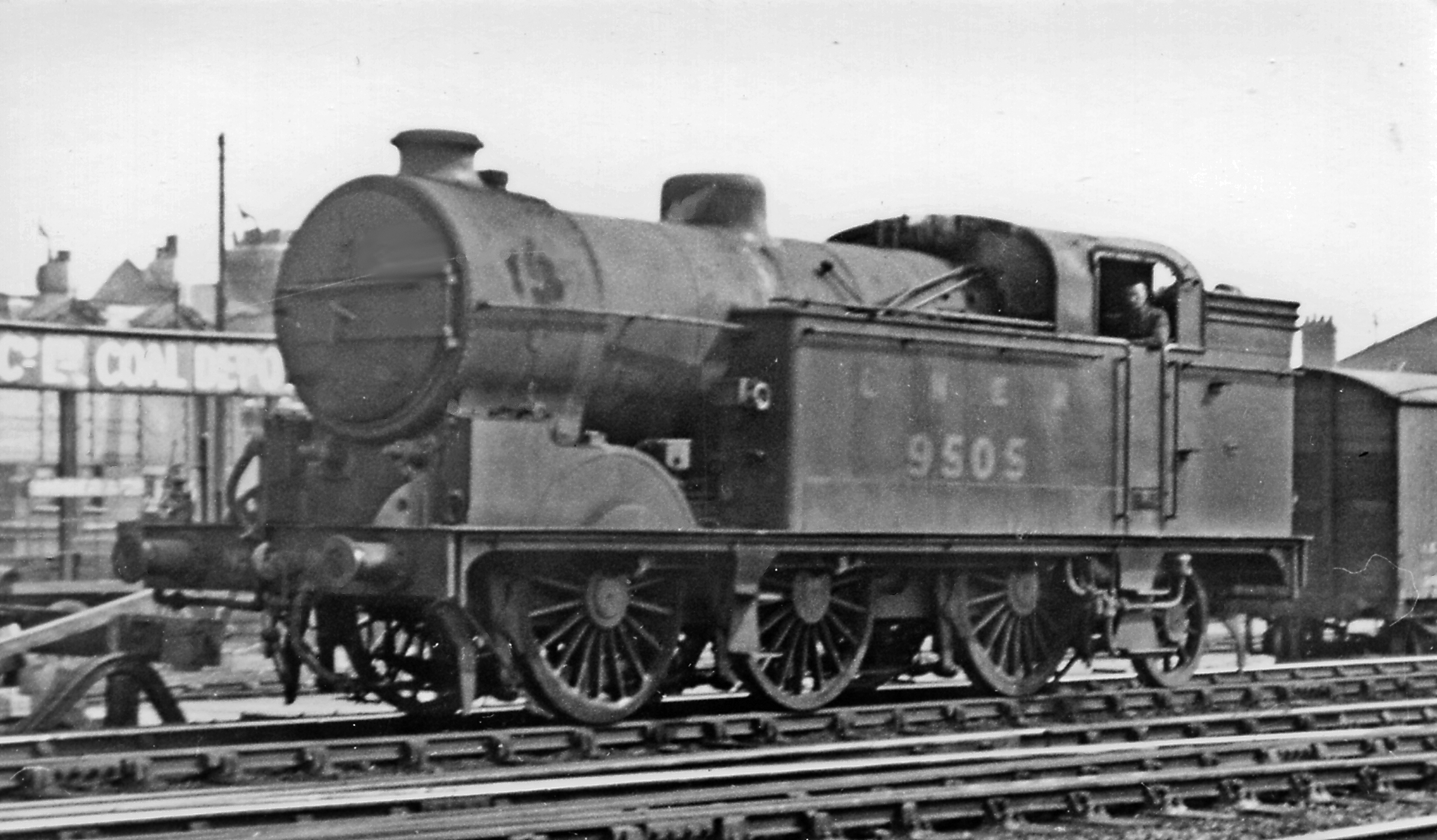 Ex-GN Gresley N2 0-6-2T at Harringay. The majority of the N2 0-6-2Ts, like the N1s, worked in the London area of the ex-GN, mainly on inner suburban services but also on empty stock work: most were fitted with condensing gear because of the numerous tunnels, but this one has lost it. No. 9505 was built as GN No. 1726 in 12/20, became LNER No. 4726 then in 1946 No. 9505, surviving as BR No. 69505 until 11/60.